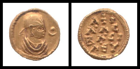 Coin of King Aphilas of Ethiopia, 4th century AD.